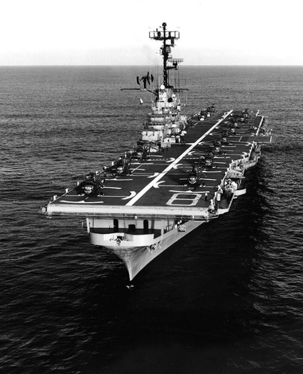 The U.S. Navy amphibious assault ship USS Valley Forge (LPH-8) at sea on 30 May 1964, with U.S. Marine Corps Sikorsky UH-34D helicopters spotted on her flight deck.